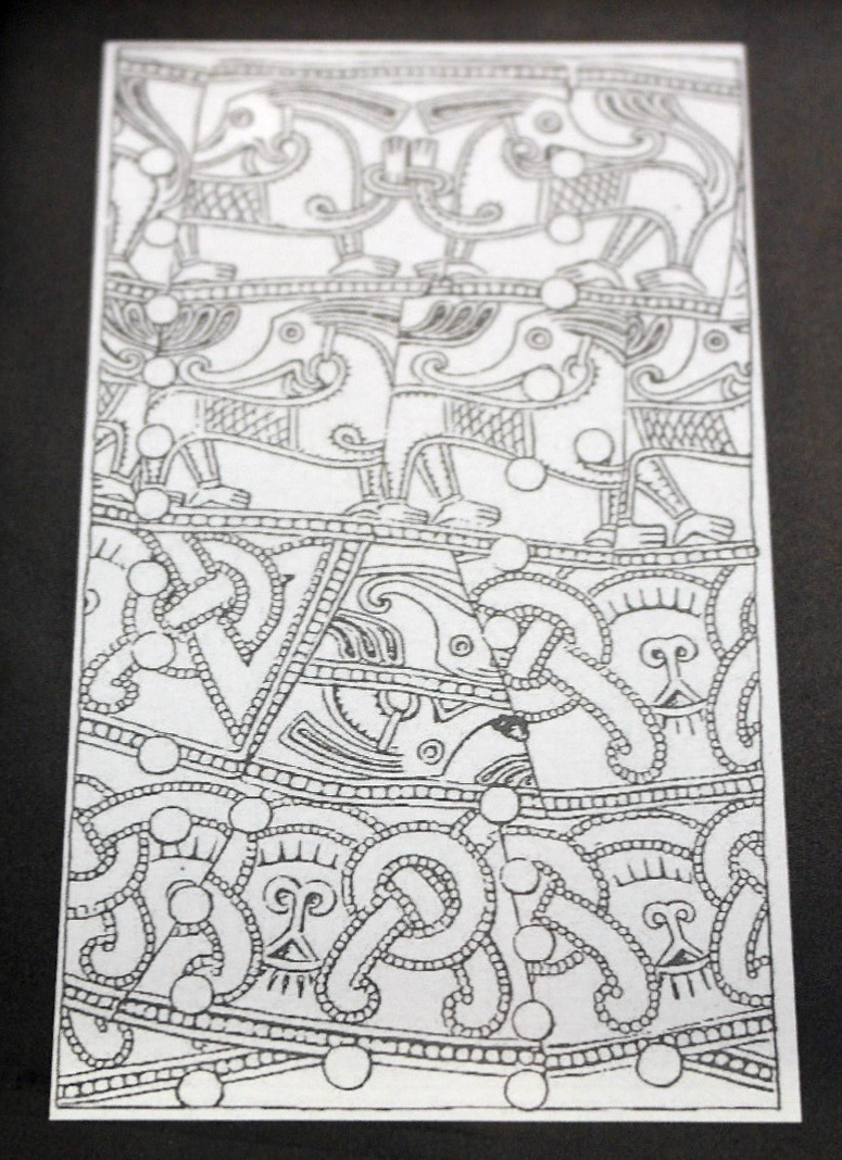 Scandinavian(?) drinking horn (10th c) serving as a reliquary horn in the Treasury of the Basilica of Our Lady, Maastricht, the Netherlands.